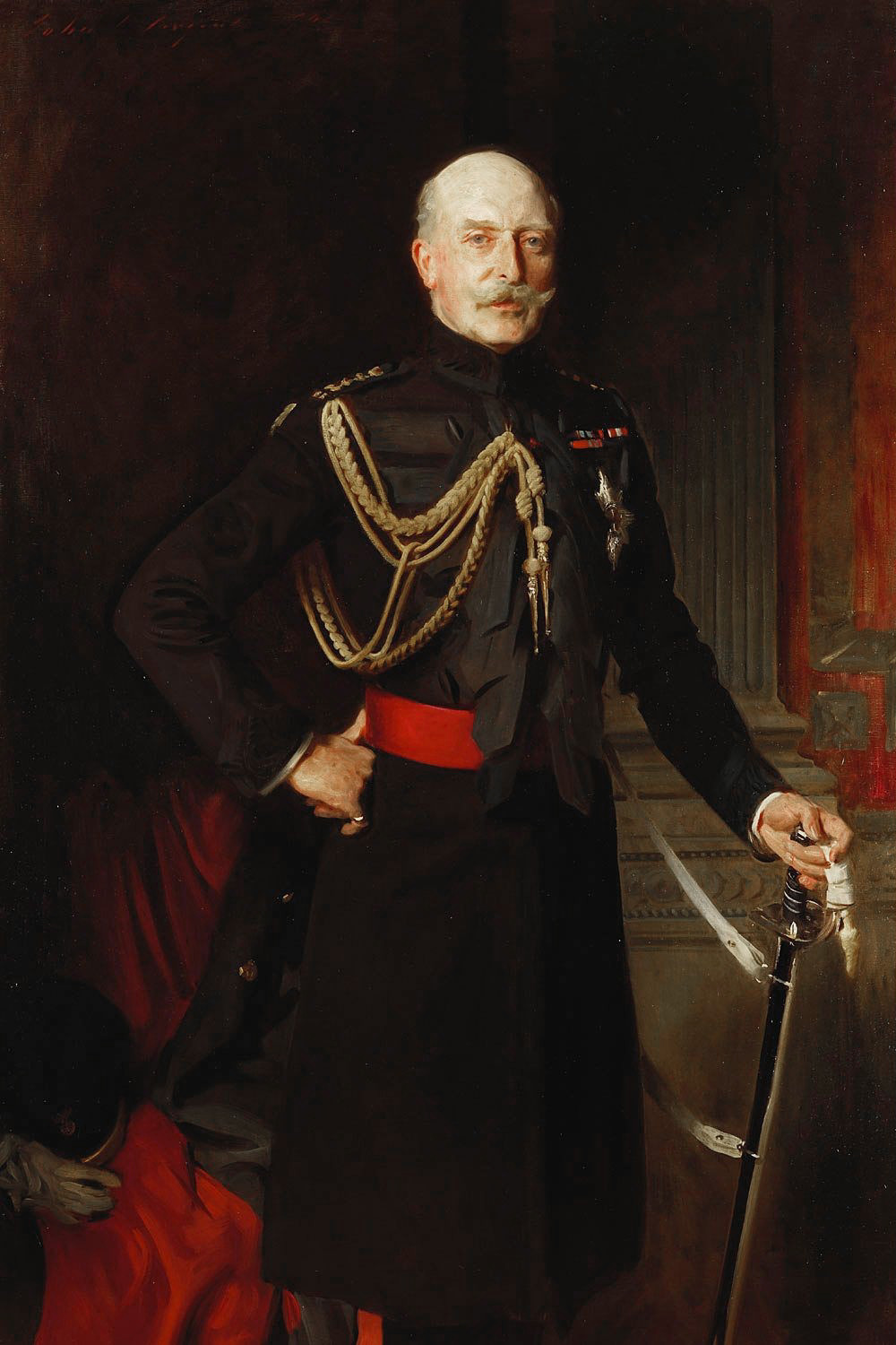 Portrait of Arthur, Duke of Connaught